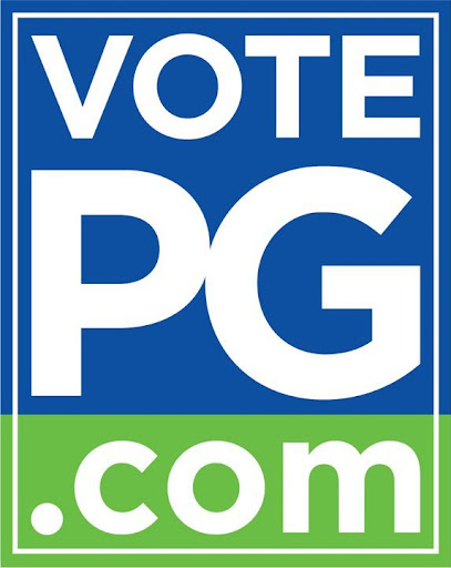 The " " logo used for the first City of Cincinnati Council campaign of P.G. Sittenfeld.